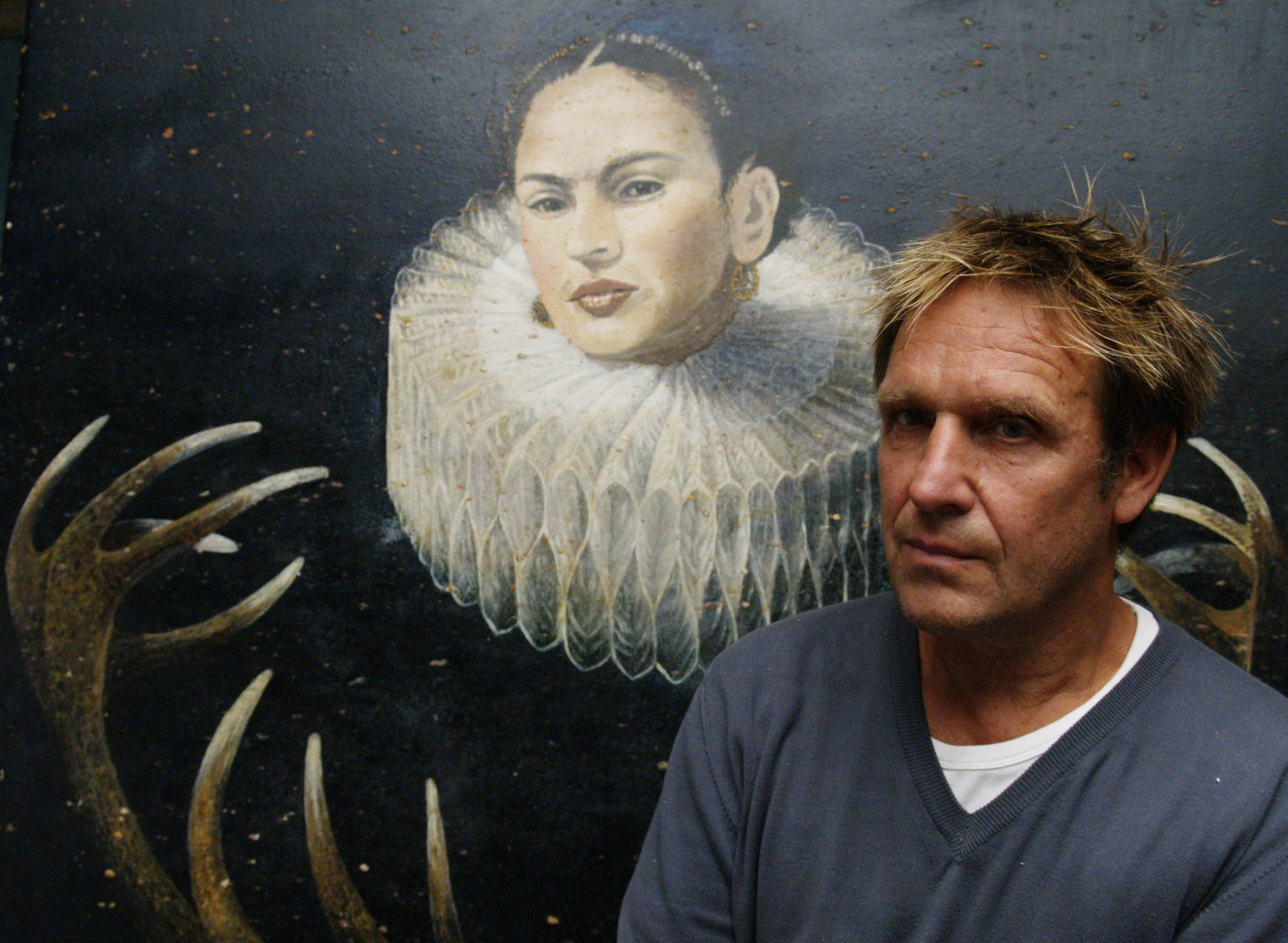 Eric Peters in front on one of his paintings